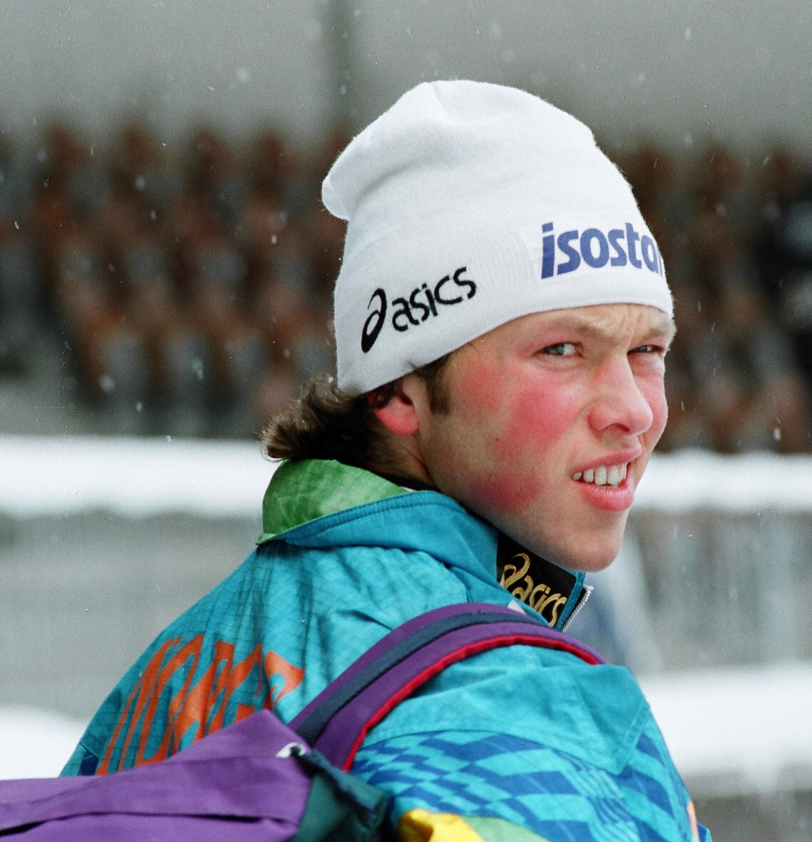 Grunde Njøs, from Norway a former speedskater. Picture taken in Inzell.